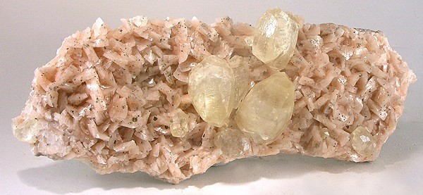 Calcite, Dolomite Locality: Ben Hogan Quarry (Black Rock Quarry), Black Rock, Lawrence County Zinc District, Lawrence County, Arkansas, USA (Locality at ) Gemmy, silky crystals of calcite on salmon-colored dolomite, recently mined in Arkansas. The light-golden calcites are nicely transparent, lustrous, and measure to 3 cm. 17.0 x 6.3 x 2.8 cm